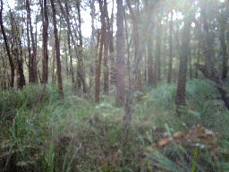 Bushland at Mount Kembla